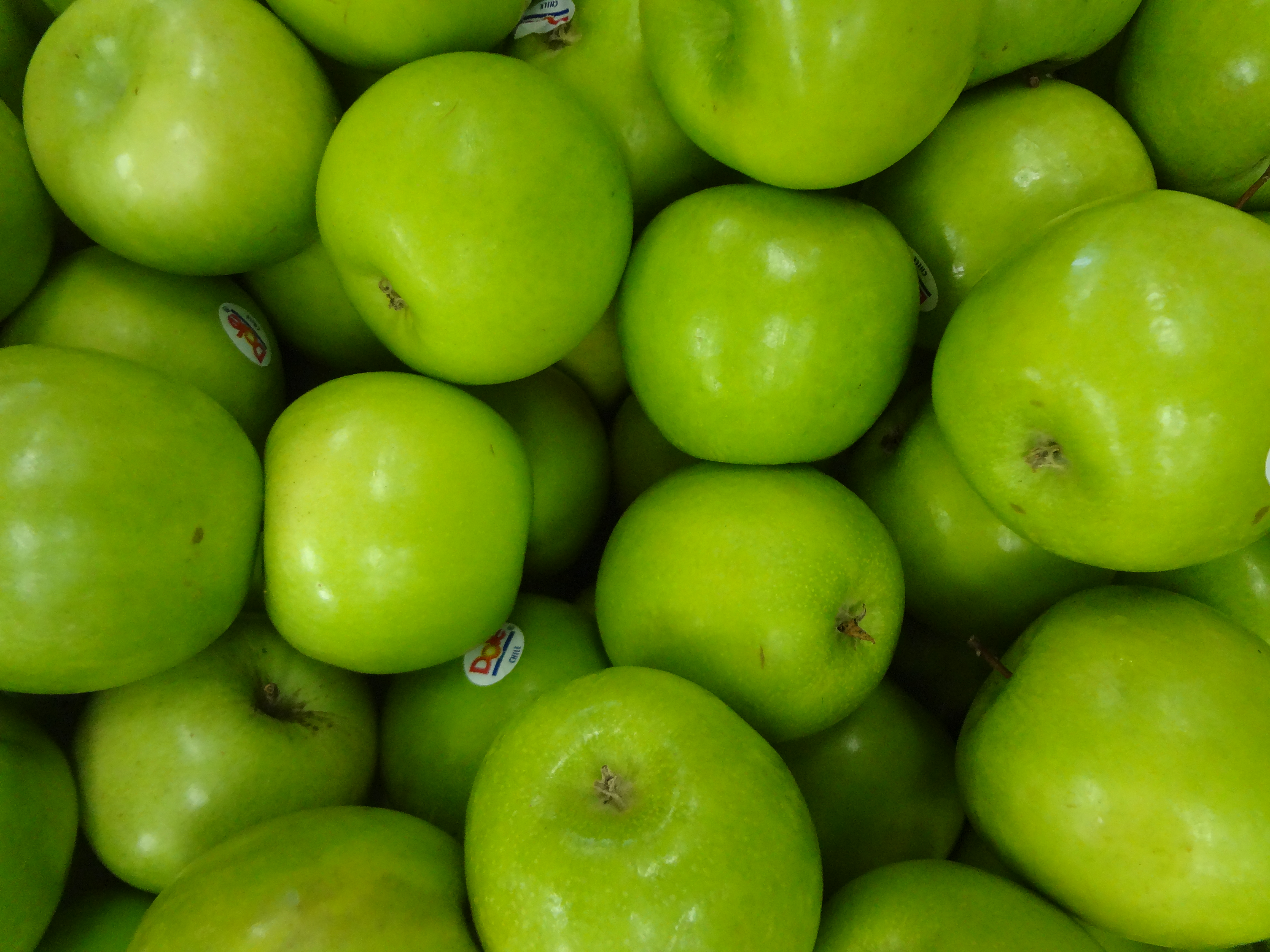 (The Granny Smith is a tip-bearing apple cultivar, which originated in Australia in 1868) Photography by David Adam Kess